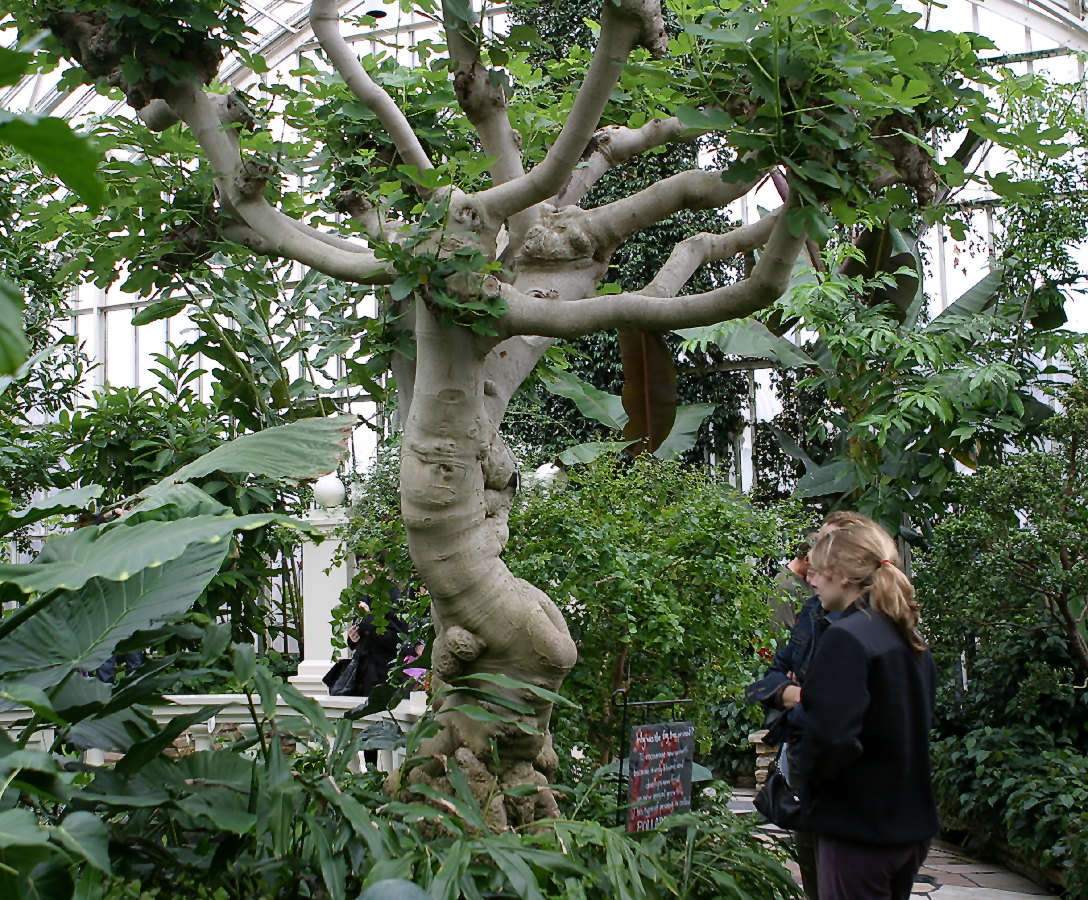 Self made picture of Ficus carica grown under glass.